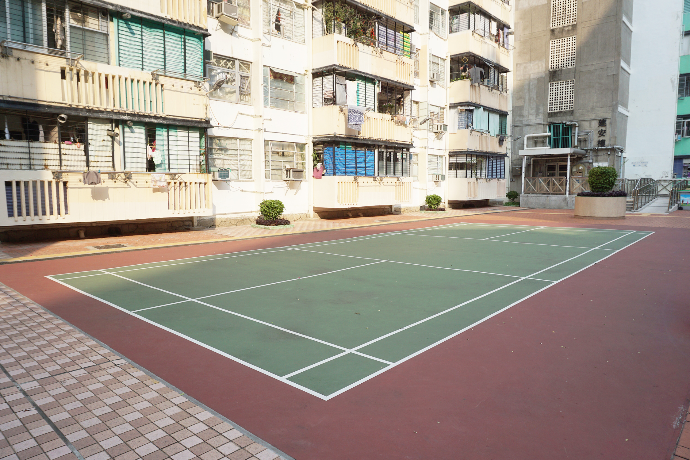 Wo Lok Estate in Kwun Tong, Hong Kong.